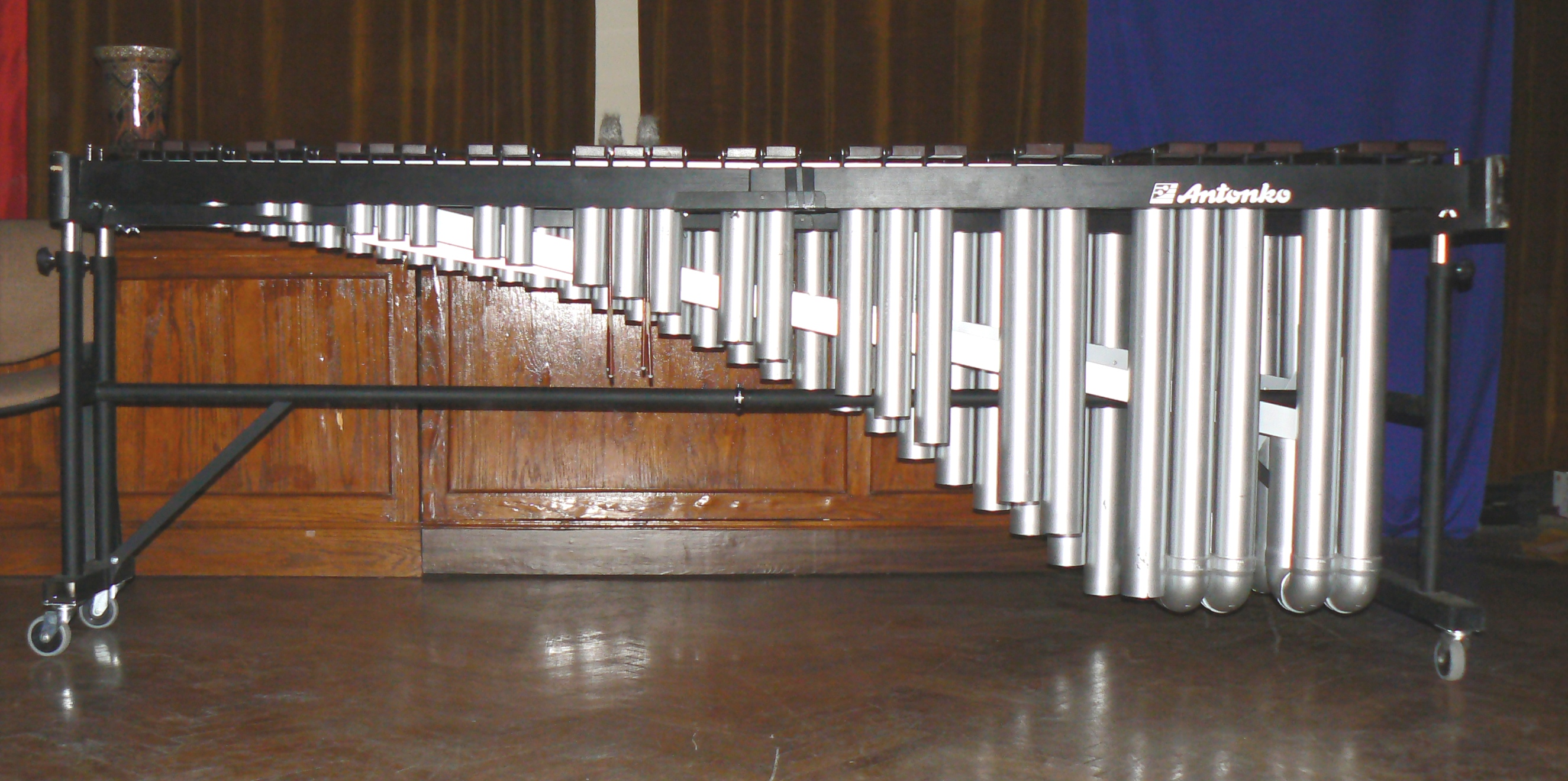 Large marimba, model Antonko AMC-12